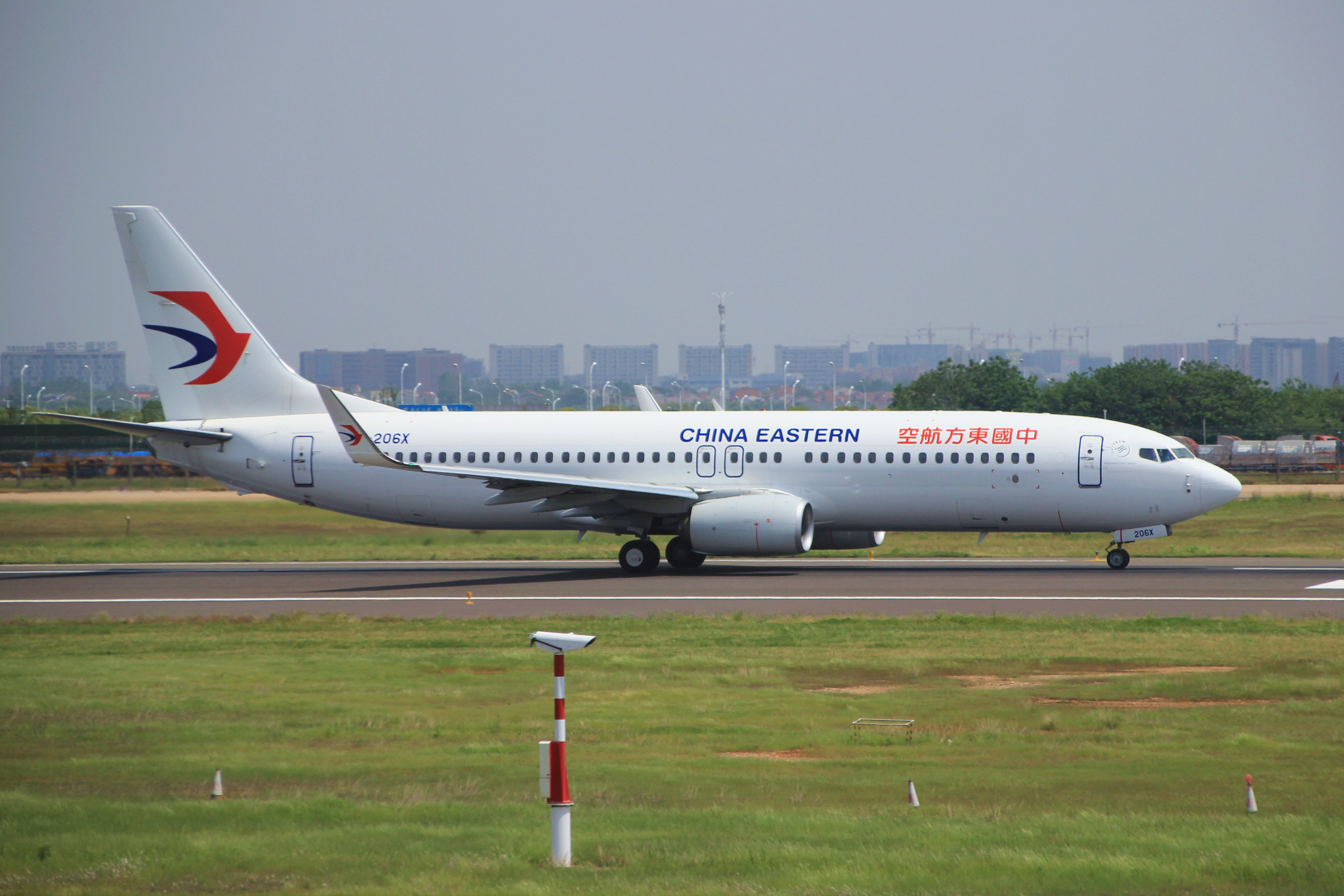 Boeing 737 airliner belonging to China Eastern Wuhan Company